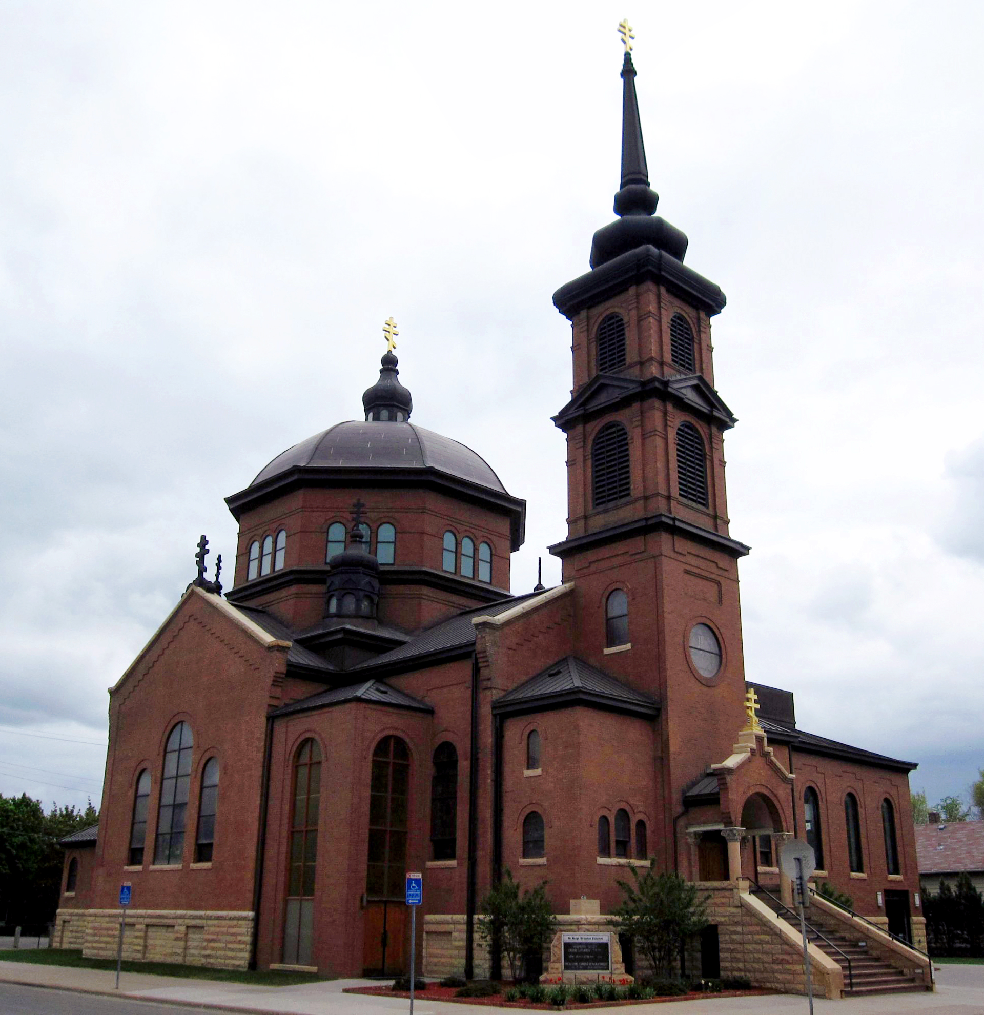 St. Mary's Orthodox Cathedral, 5th Street Northeast and 17th Avenue Northeast, Minneapolis, Minnesota, USA.